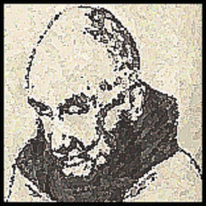 Sketch of Thomas Merton by User:Mind meal